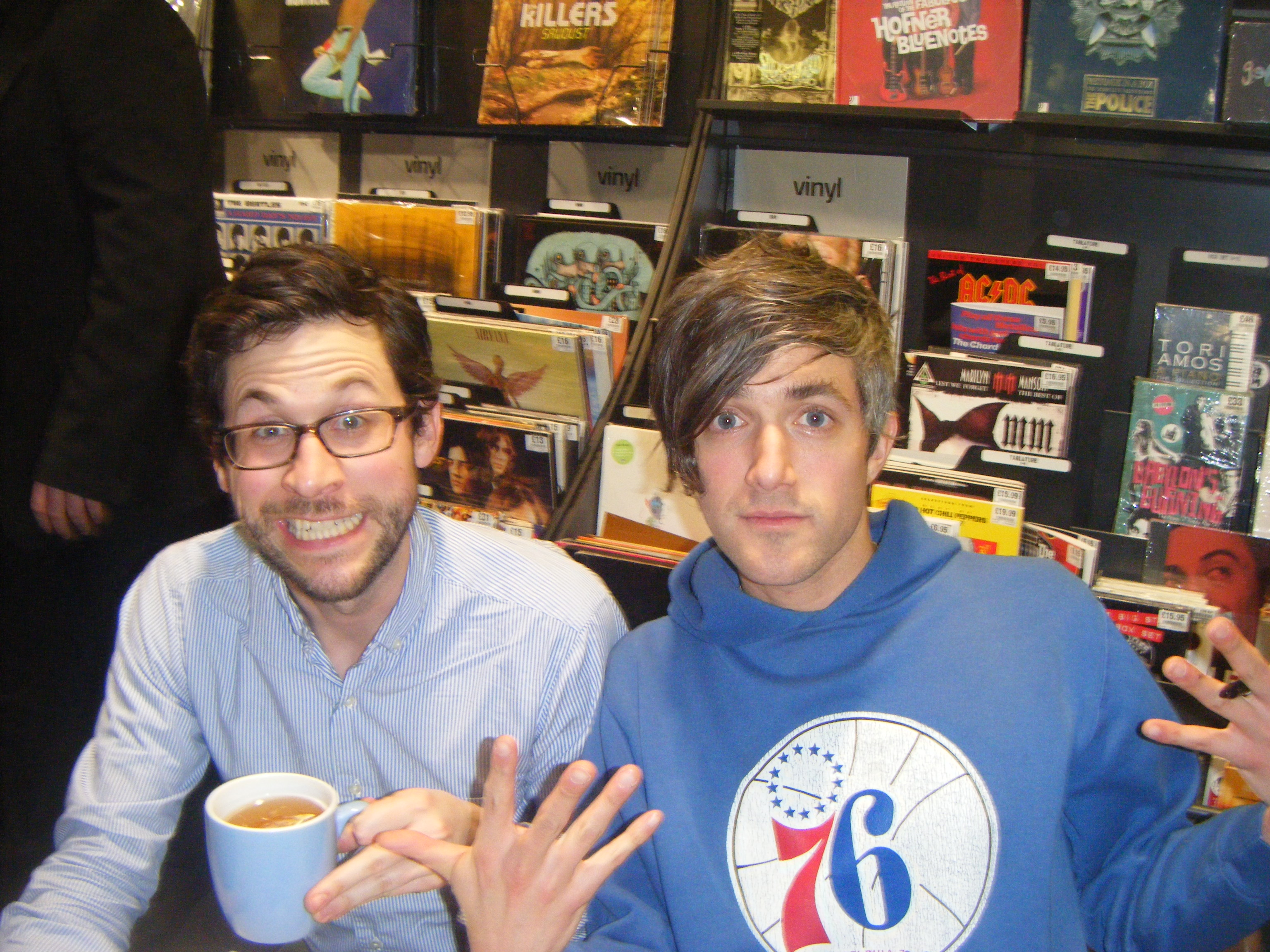 We Are Scientists - Chris Cain (left) and Keith Murray (right)